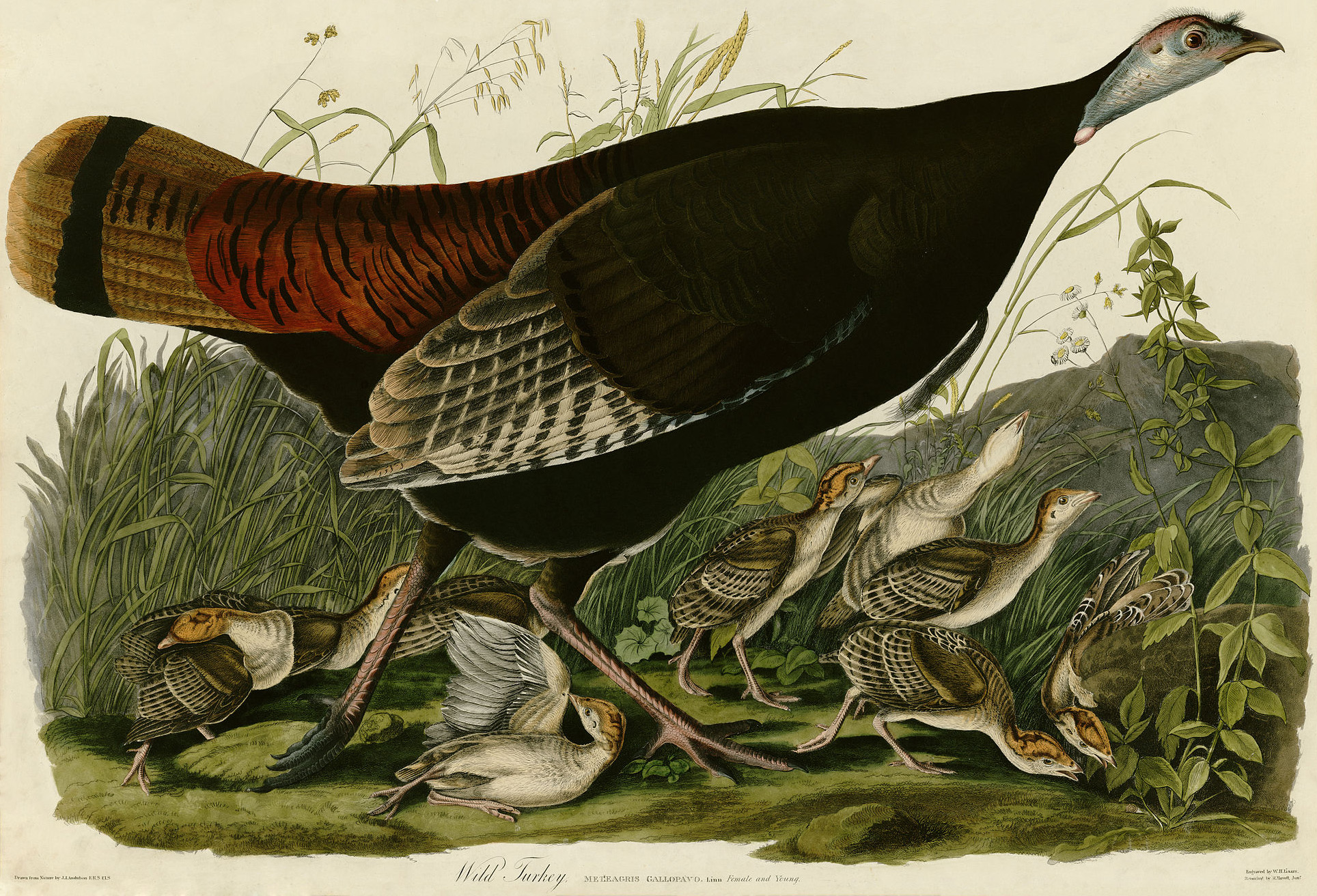 Plate 6 of Birds of America by John James Audubon depicting Wild Turkey.